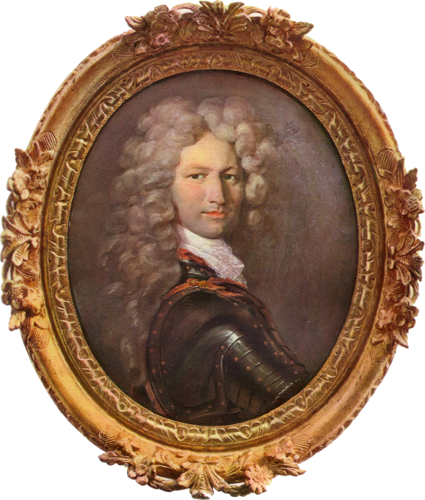 Portrait of François-Louis de Pesmes de Saint-Saphorin, Swiss diplomatist and military officer. Painting owned by Monsieur Gabriel-Henri de Mestral (1698–1772) in Aubonne, canton of Vaud, Switzerland.